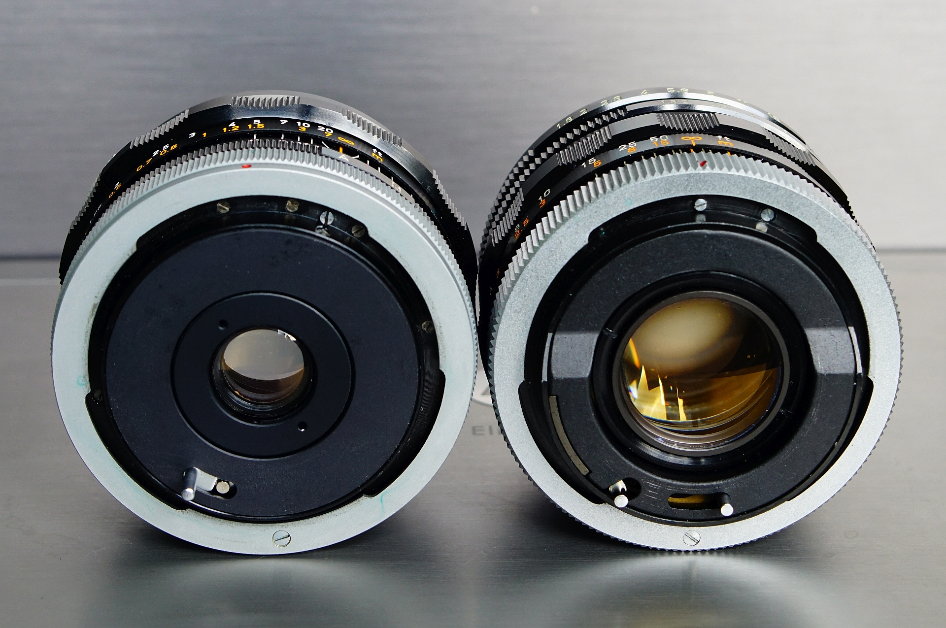 Comparison of the two first variants of Canon's breech-lock manual lenses for their SLR cameras; the Canon R mount and Canon FL mount and the difference in their aperture mechanisms.